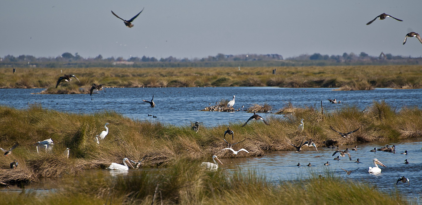 A rather amazing diversity of waterbirds concentrated in a wetlands management area of Bayou Sauvage National Wildlife Refuge. At least 20 species are in this frame of view or the sky above (see tags). A Northern Harrier is hidden behind the center Great Blue Heron.